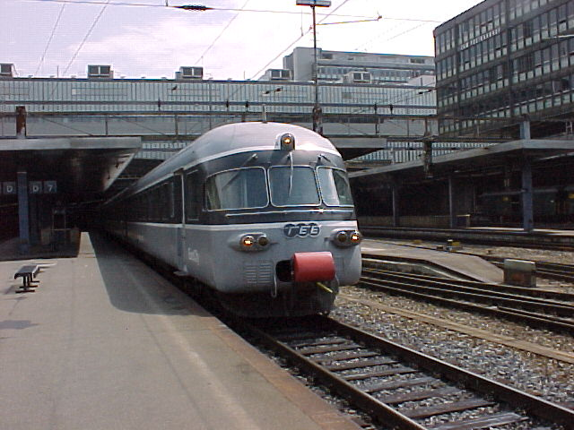 An ex-TEE trainset in EuroCity service, at Bern station. Built in about 1961, it is type RABe EC, nicknamed "Graue Maus" or "Gray Mouse". The trainset was originally type RAe TEE II, and it still has a TEE logo on the front, but was converted to RABe EC type in 1988–89, and it is in EuroCity service in this photo, taken circa the early 1990s.